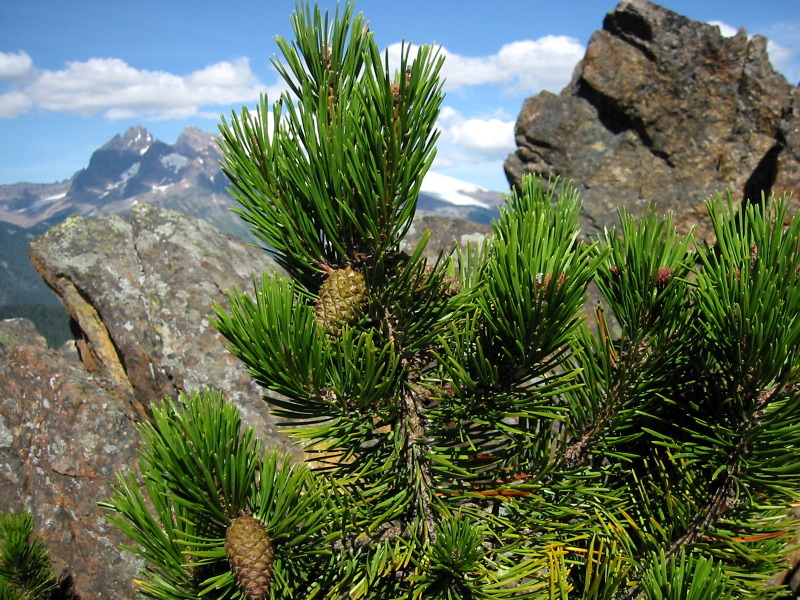 Lodgepole Pine; Lincoln Peak (behind, left)